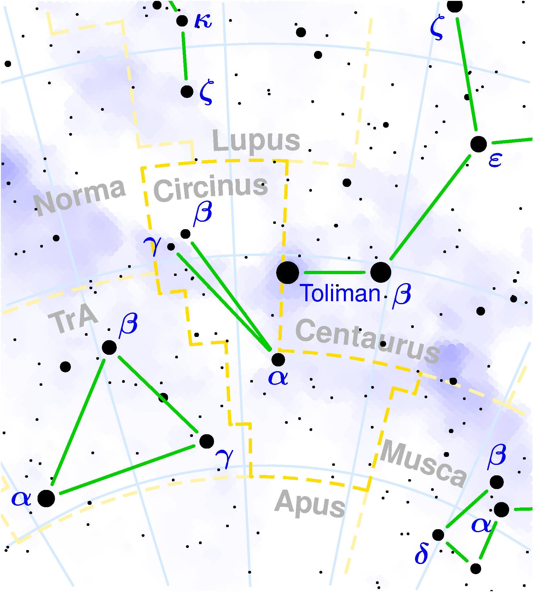 This is a celestial map of the constellation Circinus, the Pair of Compasses. It was created by Torsten Bronger using the program PP3 on 2003/08/18. At PP3's homepage, you also get the input scripts necessary for re-compiling the map. The yellow dashed lines are constellation boundaries, the red dashed line is the ecliptic, and the shades of blue show Milky Way areas of different brightness. The map contains all Messier objects, except for colliding ones. The underlying database contains all stars brighter than 6.5. All coordinates refer to equinox 2000.0. The map is calculated with the equidistant azimuthal projection (the zenith being in the center of the image). The north pole is to the top. The (horizontal) lines of equal declination are drawn for 0°, ±10°, ±20° etc. The lines of equal rectascension are drawn for all 24 hours. Towards the rim there is a very slight magnification (and distortion).